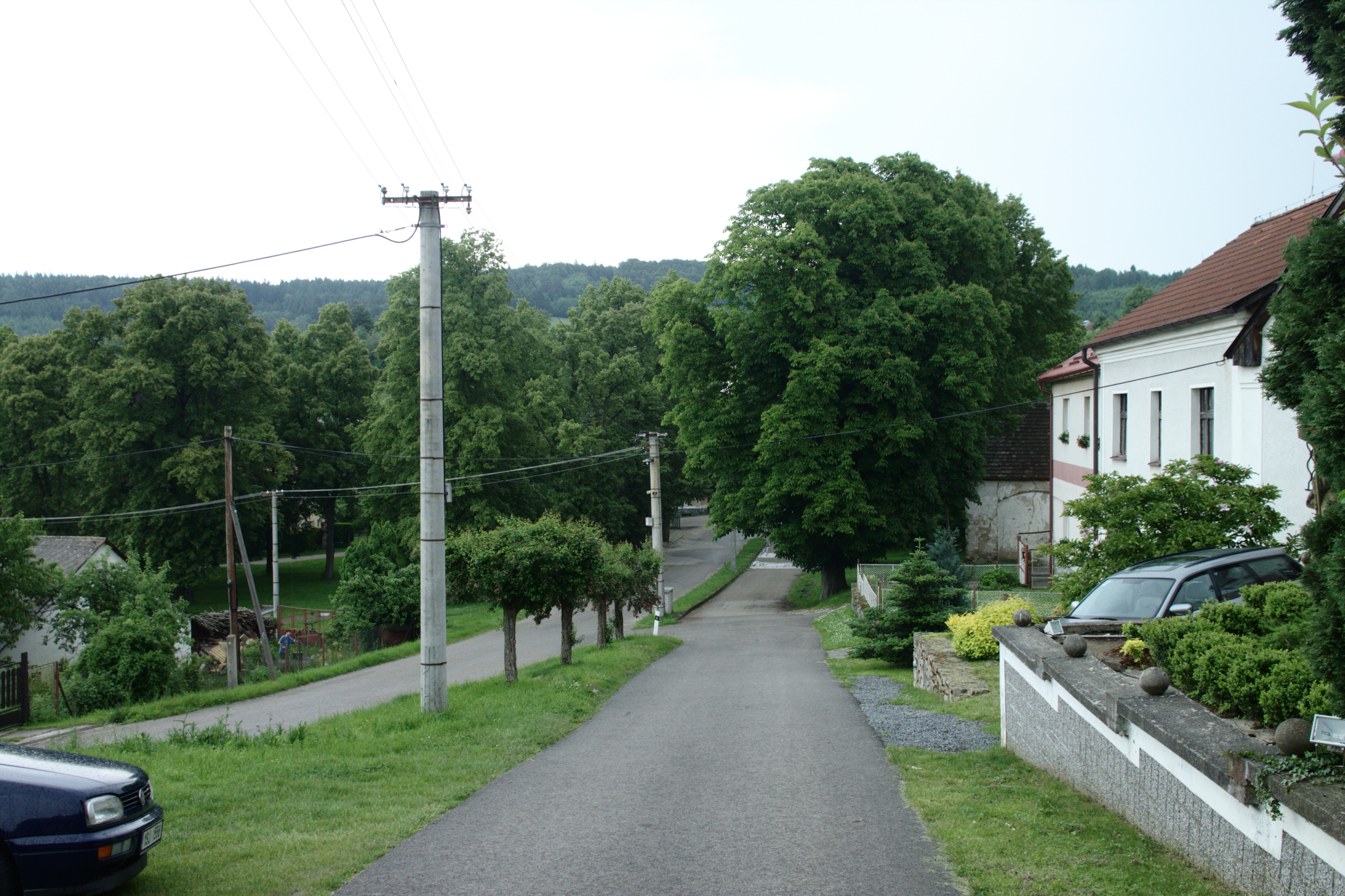 Village of Ouběnice, Central Bohemian Region, CZ